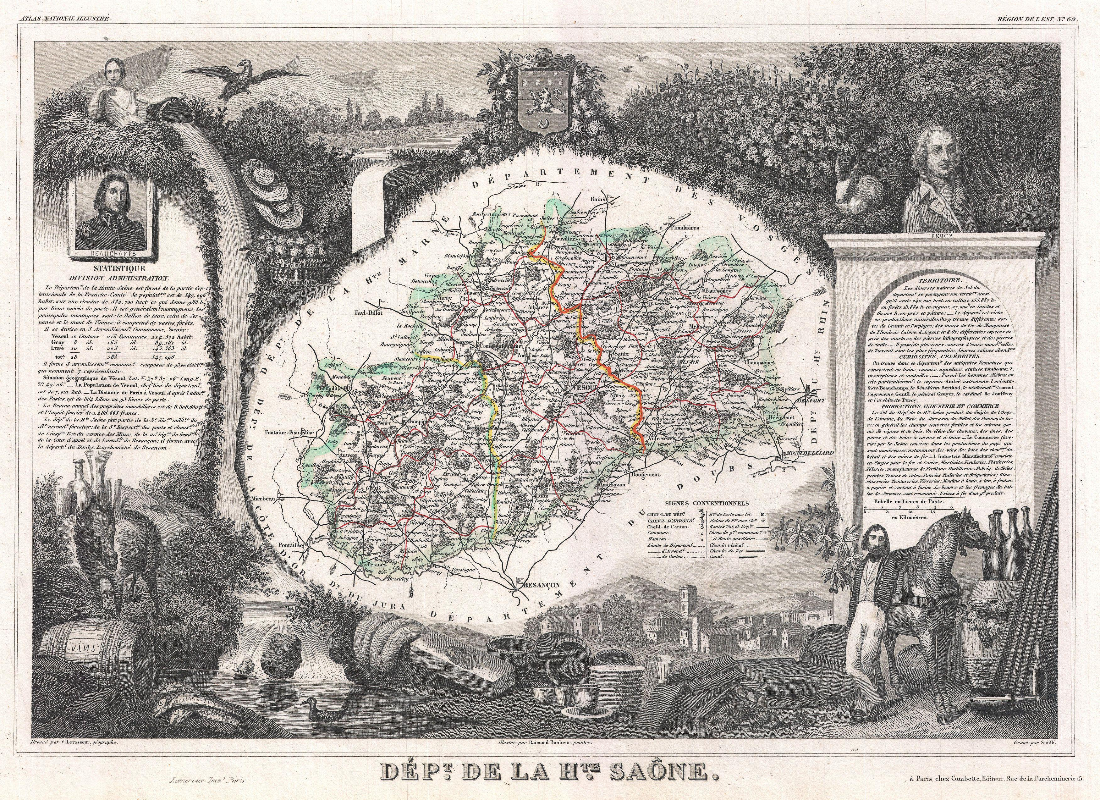 This is a fascinating 1852 map of the French department of Haute-Saone, France. Part of France's important Burgundy or Bourgogne Wine Region. This area is home to the Jean Roussey cheese factory. The map proper is surrounded by elaborate decorative engravings designed to illustrate both the natural beauty and trade richness of the land. There is a short textual history of the regions depicted on both the left and right sides of the map. Published by V. Levasseur in the 1852 edition of his Atlas National de la France Illustree.